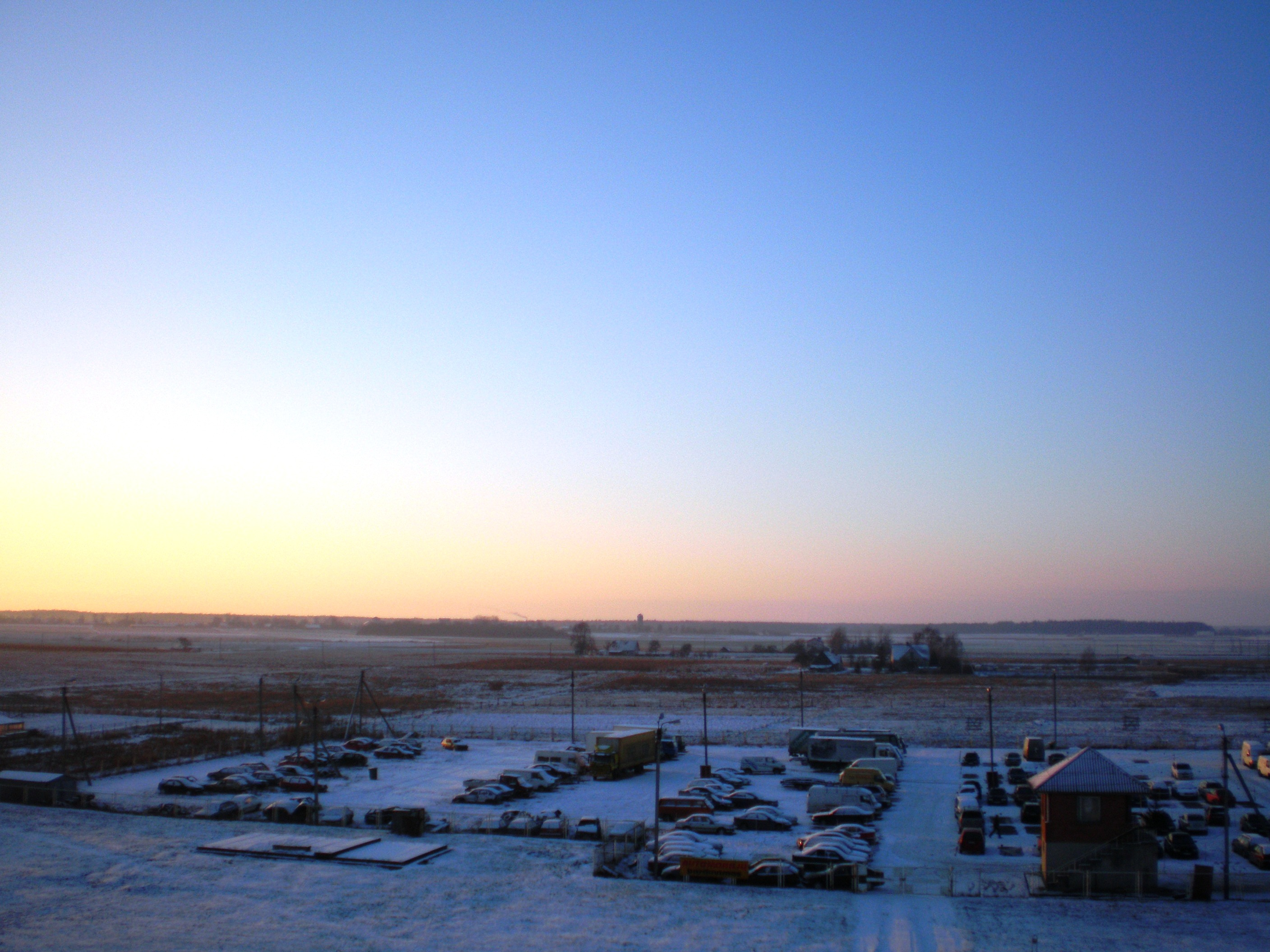 Anticyclone